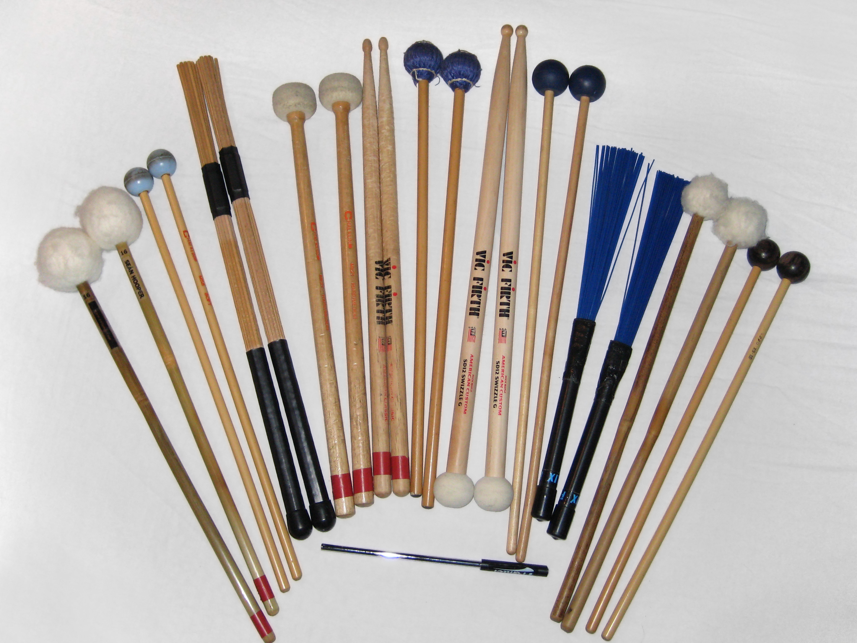 A photograph showing various types of beaters, such as; Mallets, Drum Sticks, & Brushes all used in the playing of percussion instruments.